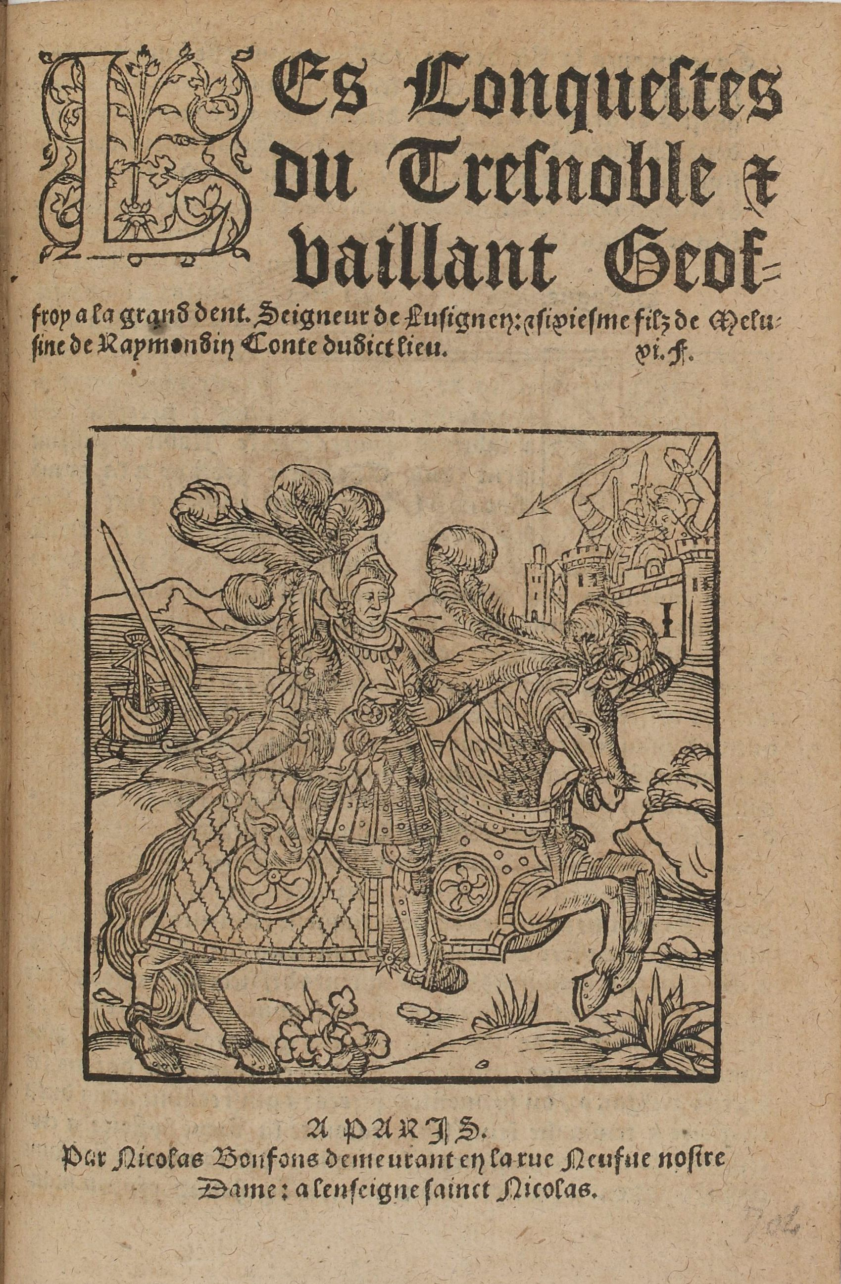 Title page of "Les conquestes du tres noble & vaillant Geoffroy a la grand dent. Seigneur de Lusignen : sixiesme filz de Melusine de Raymondin, conte dudict lieu.", Paris, printed by Nicolas Bonfons (active 1572-1618?, died 1626), undated edition.